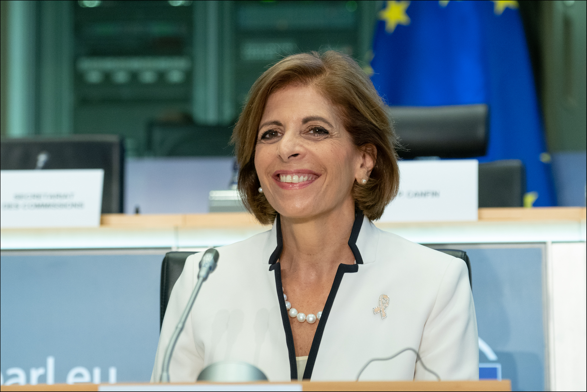 Before the European Parliament can vote the new European Commission led by Ursula von der Leyen into office, parliamentary committees will assess the suitability of commissioners-designate. On 23-26 May, more than 200,000,000 people in 28 EU countries went to the polls to elect members of the European Parliament, giving them a strong democratic mandate, including voting into office the new European Commission and examining the competencies and abilities of its commissioners-designate. Elected members of the European Parliament will also listen to their ideas and will assess their willingness to take concrete actions on the issues that Europeans care about. Each candidate commissioner is invited for a live-streamed, three-hour hearing in front of the committee or committees responsible for their proposed portfolio. The hearings will take place between Monday 30 September and Tuesday 8 October. This photo is free to use under Creative Commons license CC-BY-4.0 and must be credited: "CC-BY-4.0: © European Union 2019 – Source: EP". No model release form if applicable. For bigger HR files please contact: webcom-flickr(AT)